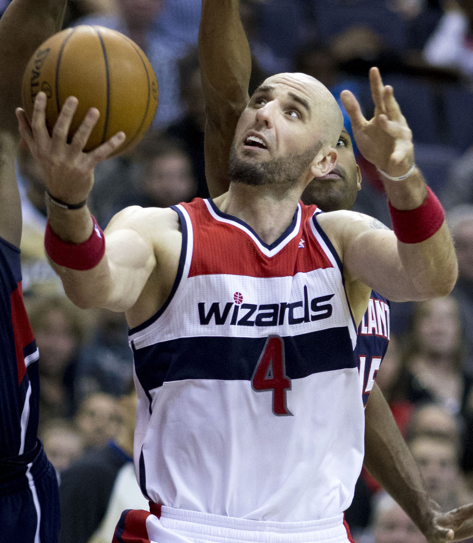 Marcin Gortat